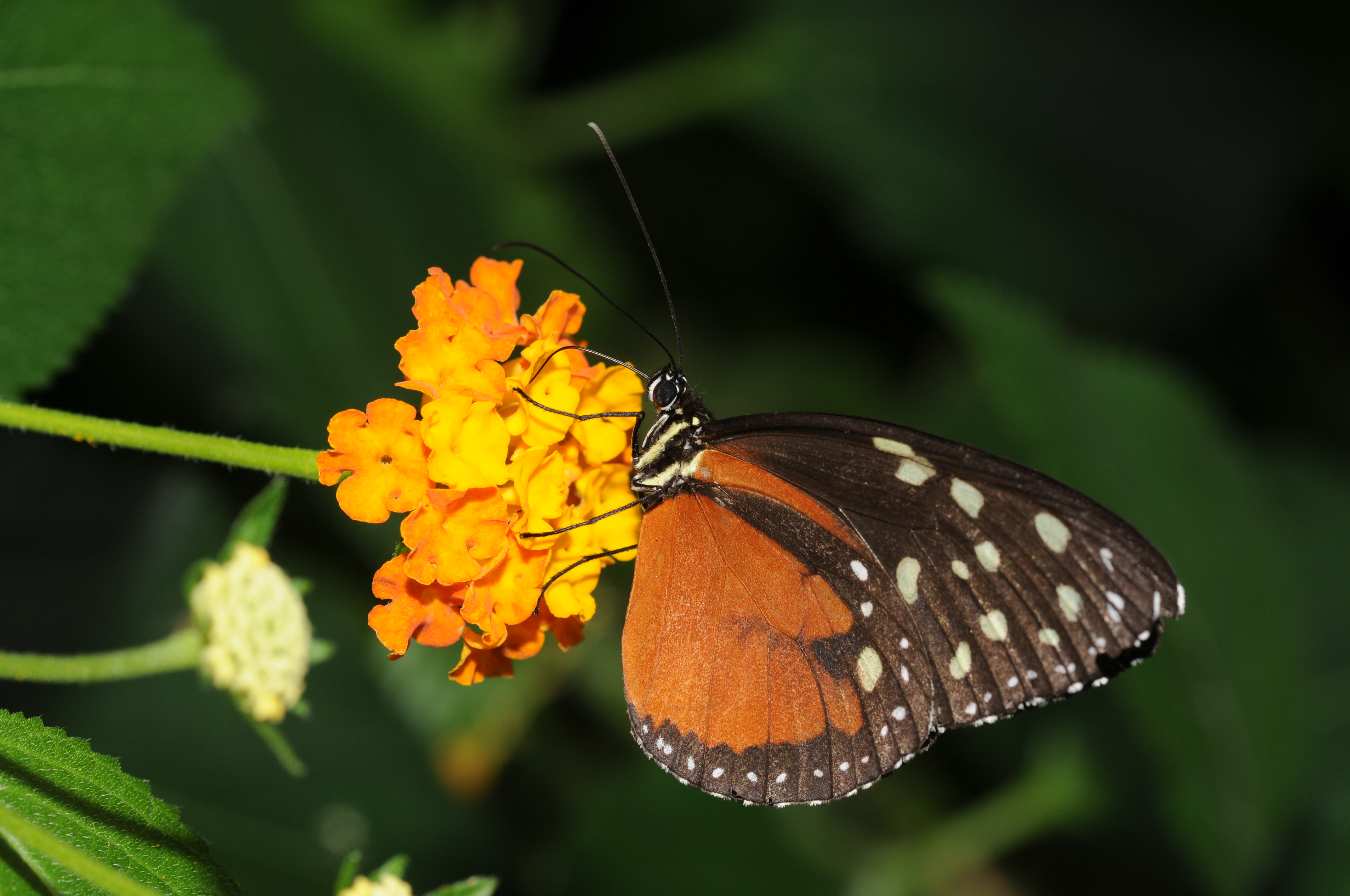 Tithorea tarricina pinthias. Jardin des papillons (Hunawihr).